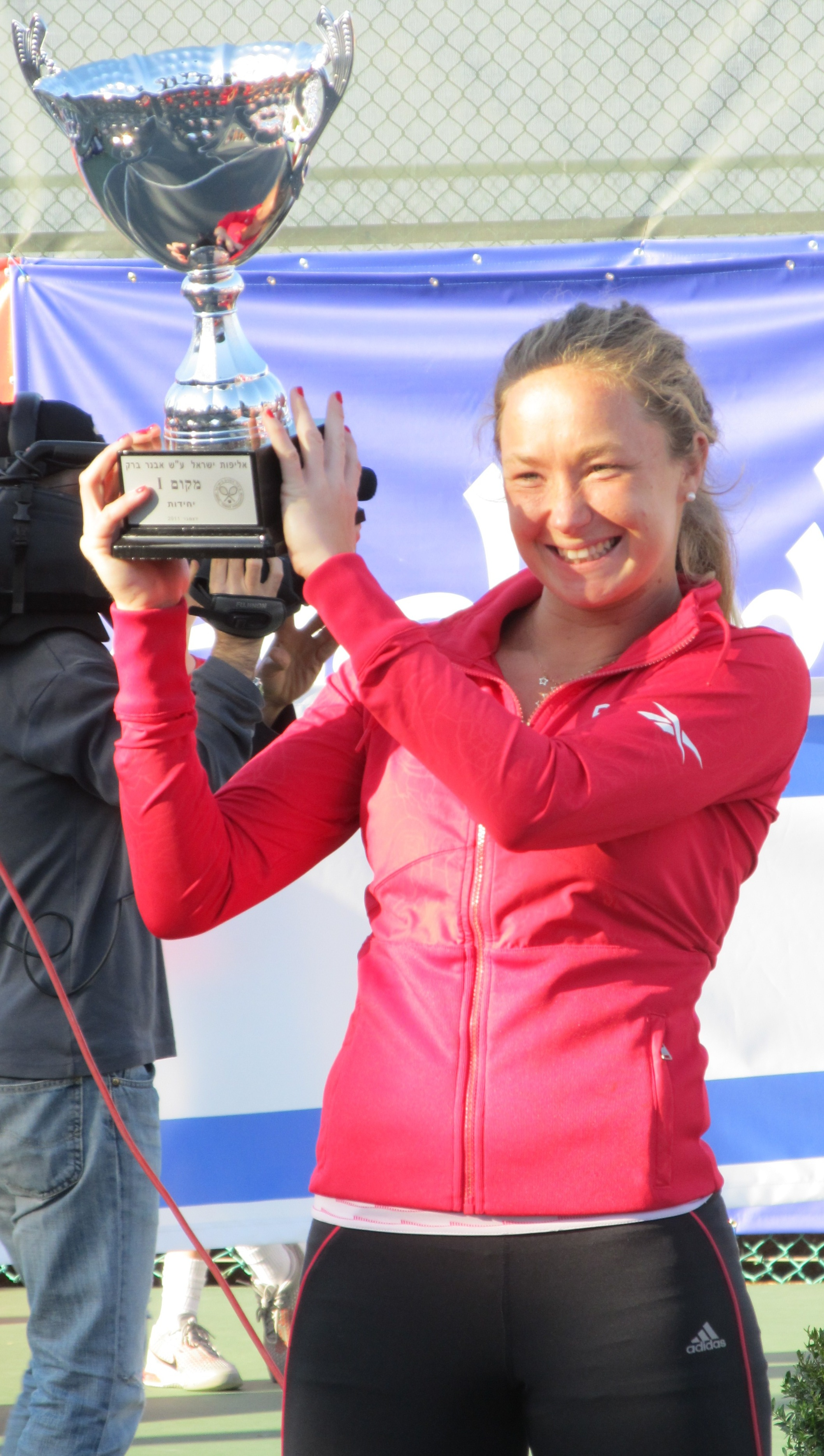 הטניסאית הישראלית יוליה גלושקו אוחזת בגביע לאחר שניצחה בגמר אליפות ישראל בטניס לשנת 2011.